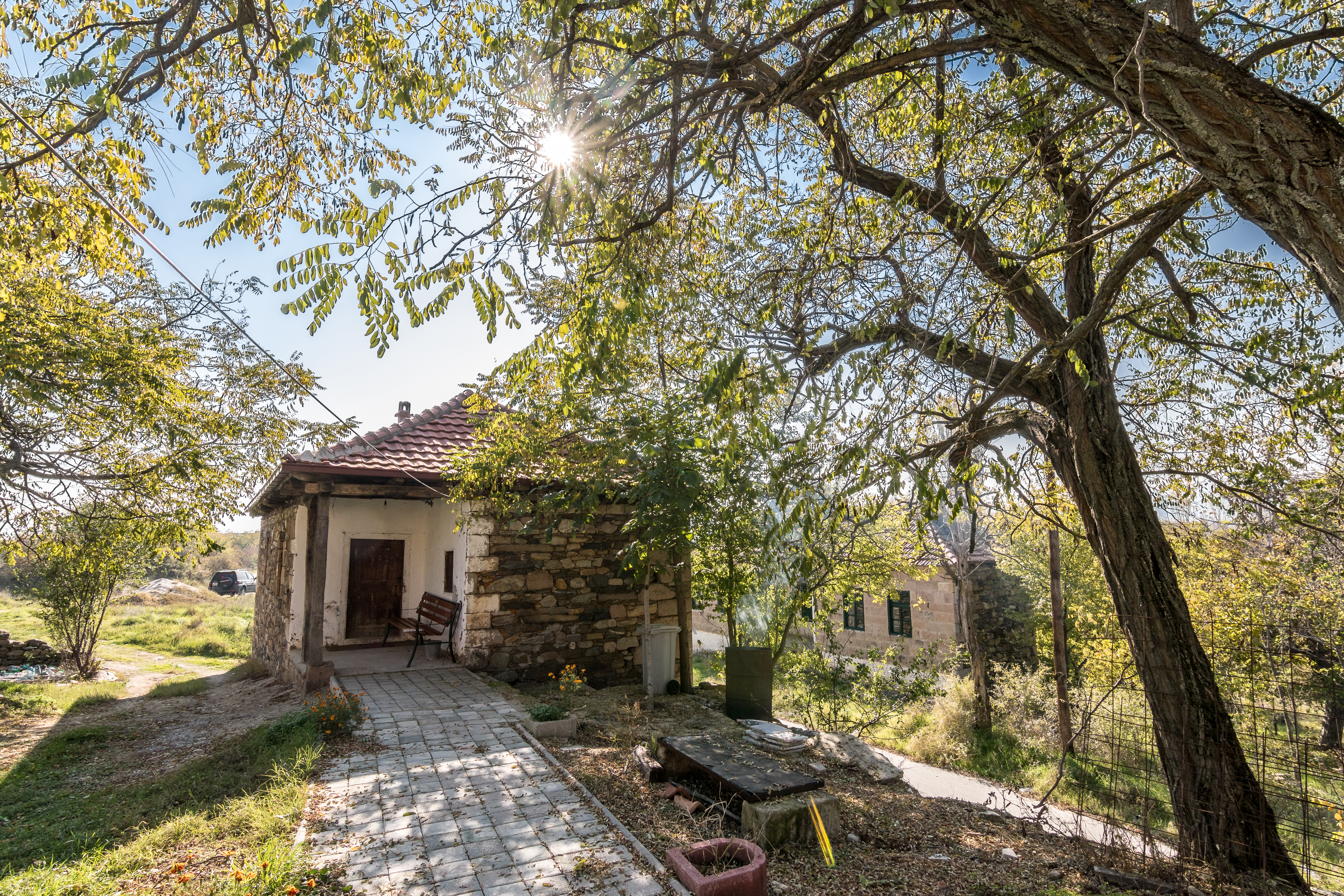 Part of the village Otošnica